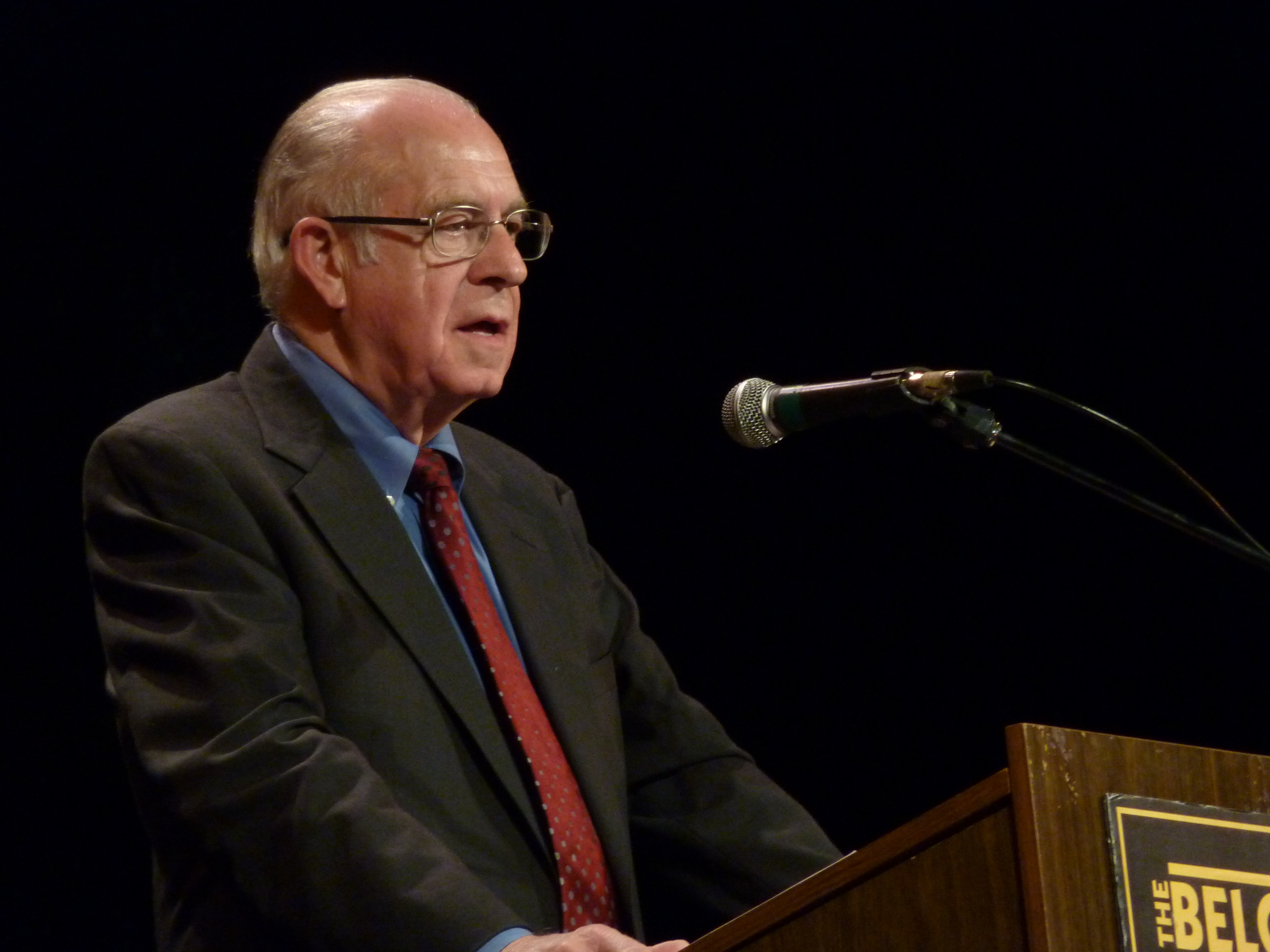 Carl Kasell speaking to a group of public radio listeners at the Belcourt Theatre in Nashville, Tennessee on November 16, 2009.